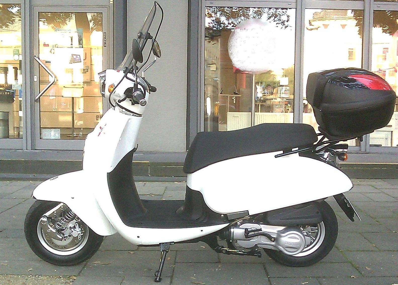 Daelim Besbi 2010 li